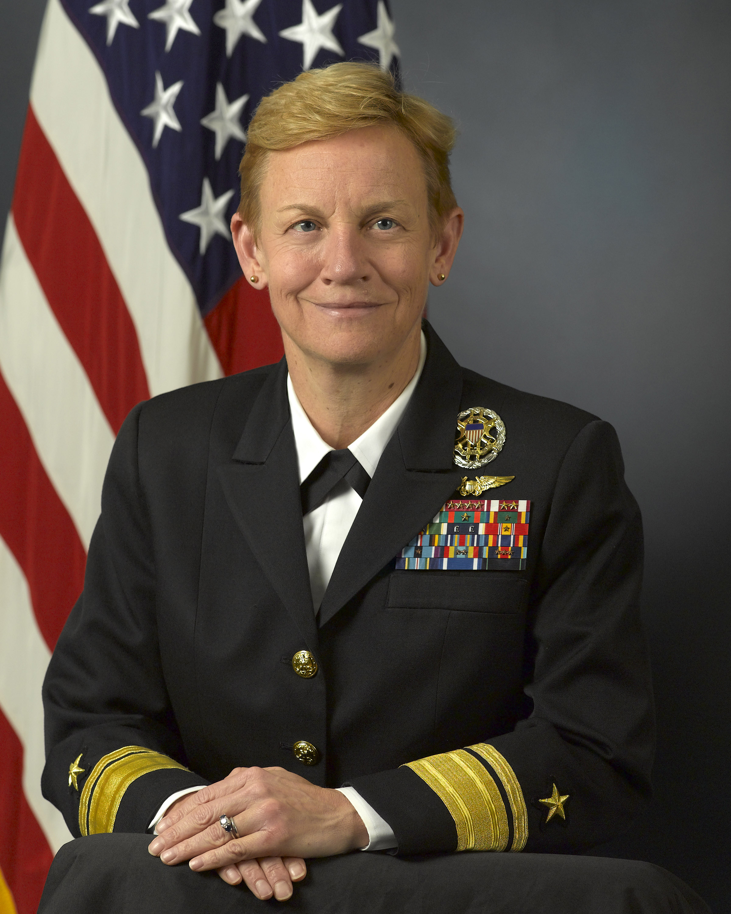 Official portrait of Rear Admiral (upper half) Nora W. Tyson, Vice Director of the Joint Staff.